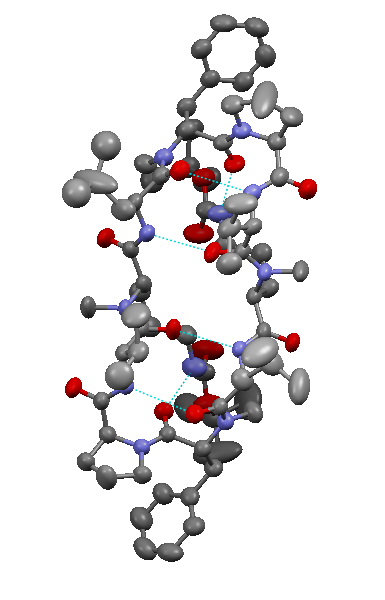 Gramicidin S 3D model from crystal structure rendered in Mercury with elipsoids at 50% probability. See Ref: Stereochemistry of Protected Ornithine Side Chains of Gramicidin S Derivatives: X-ray Crystal Structure of the Bis-Boc-tetra-N-methyl Derivative of Gramicidin S Keiichi Yamada, Masafumi Unno, Kyoko Kobayashi, Hiroyuki Oku, Hatsuo Yamamura, Shuki Araki, Hideyuki Matsumoto, Ryoichi Katakai, and Masao Kawai J. Am. Chem. Soc.; 2002; 124(43) pp 12684 - 12688; (Article)